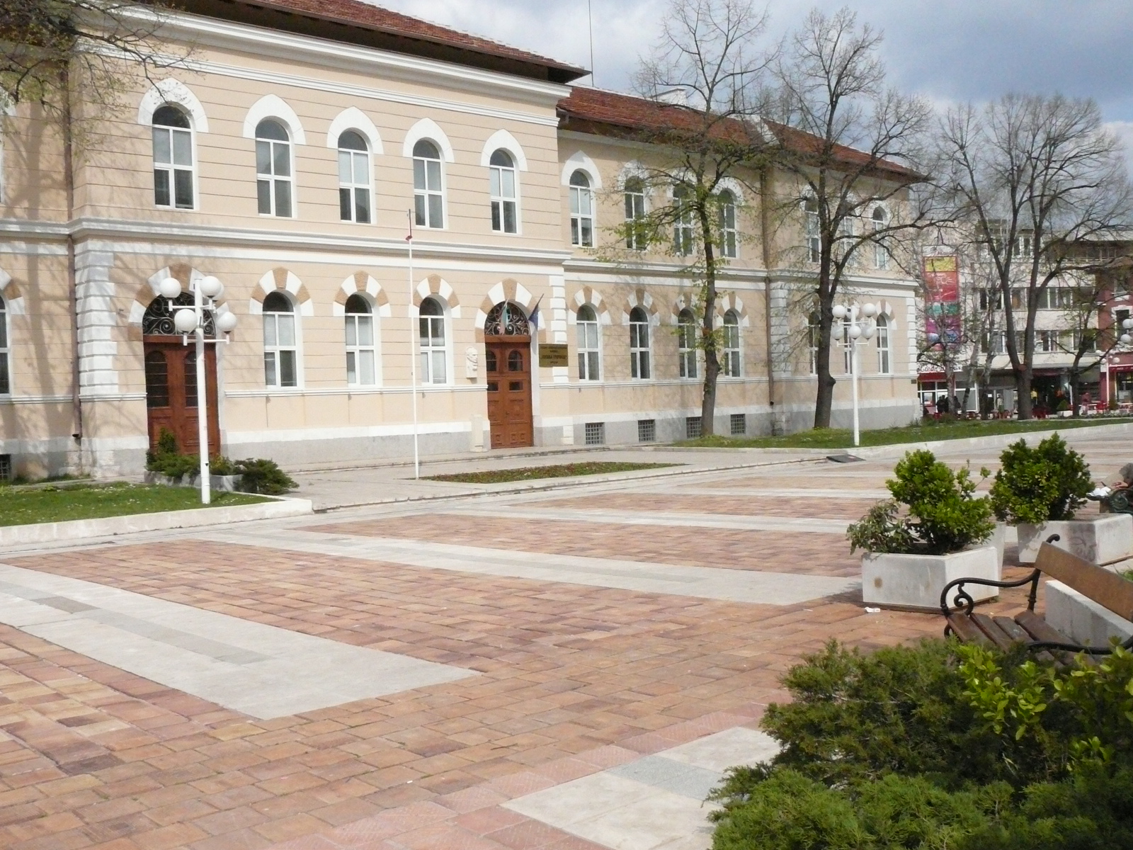 „Kozma Trichkov“ high school in Vratsa, Bulgaria